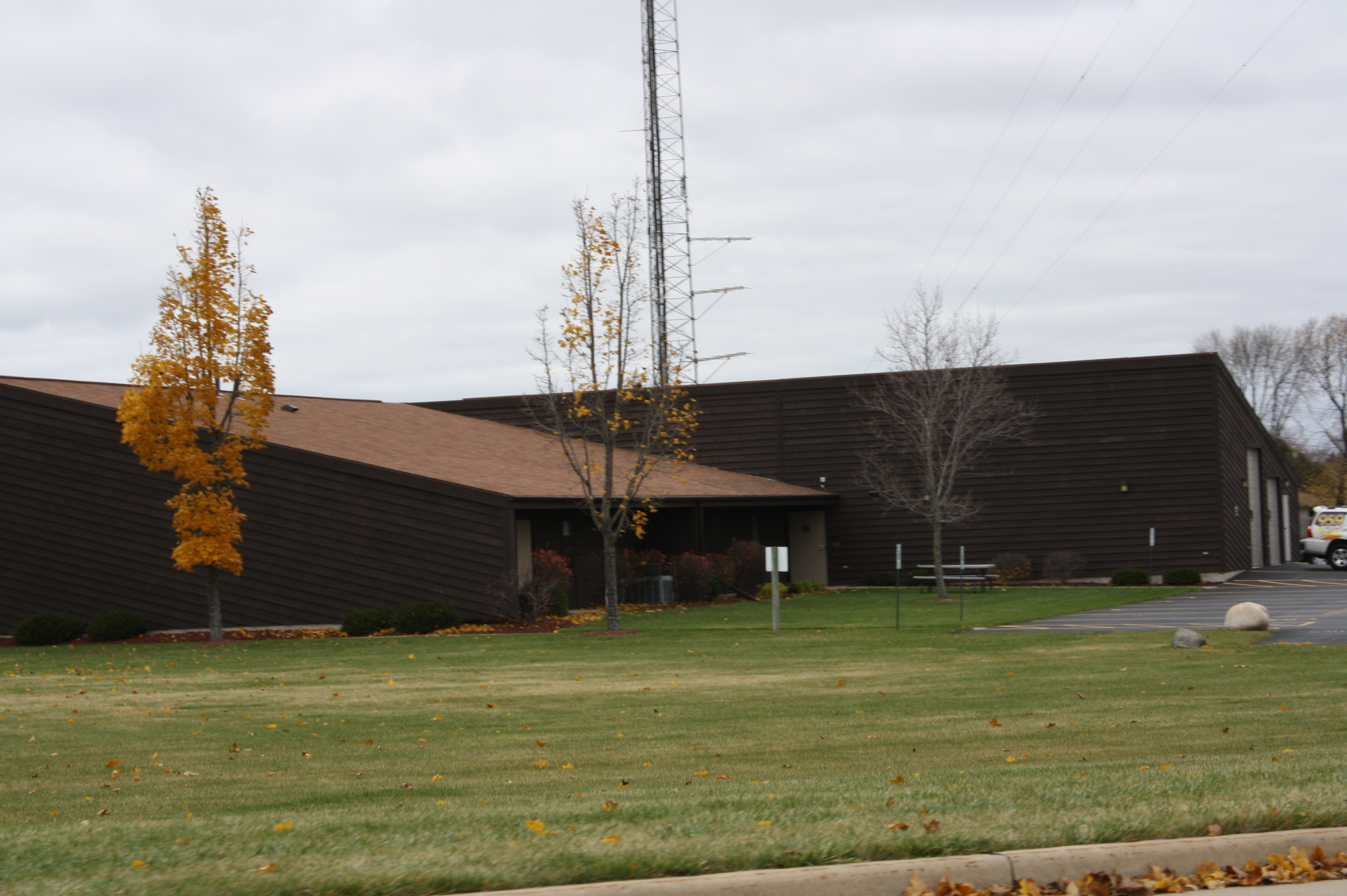 The studios for the Woodward Communications radio stations in Appleton/Green Bay, Wisconsin.